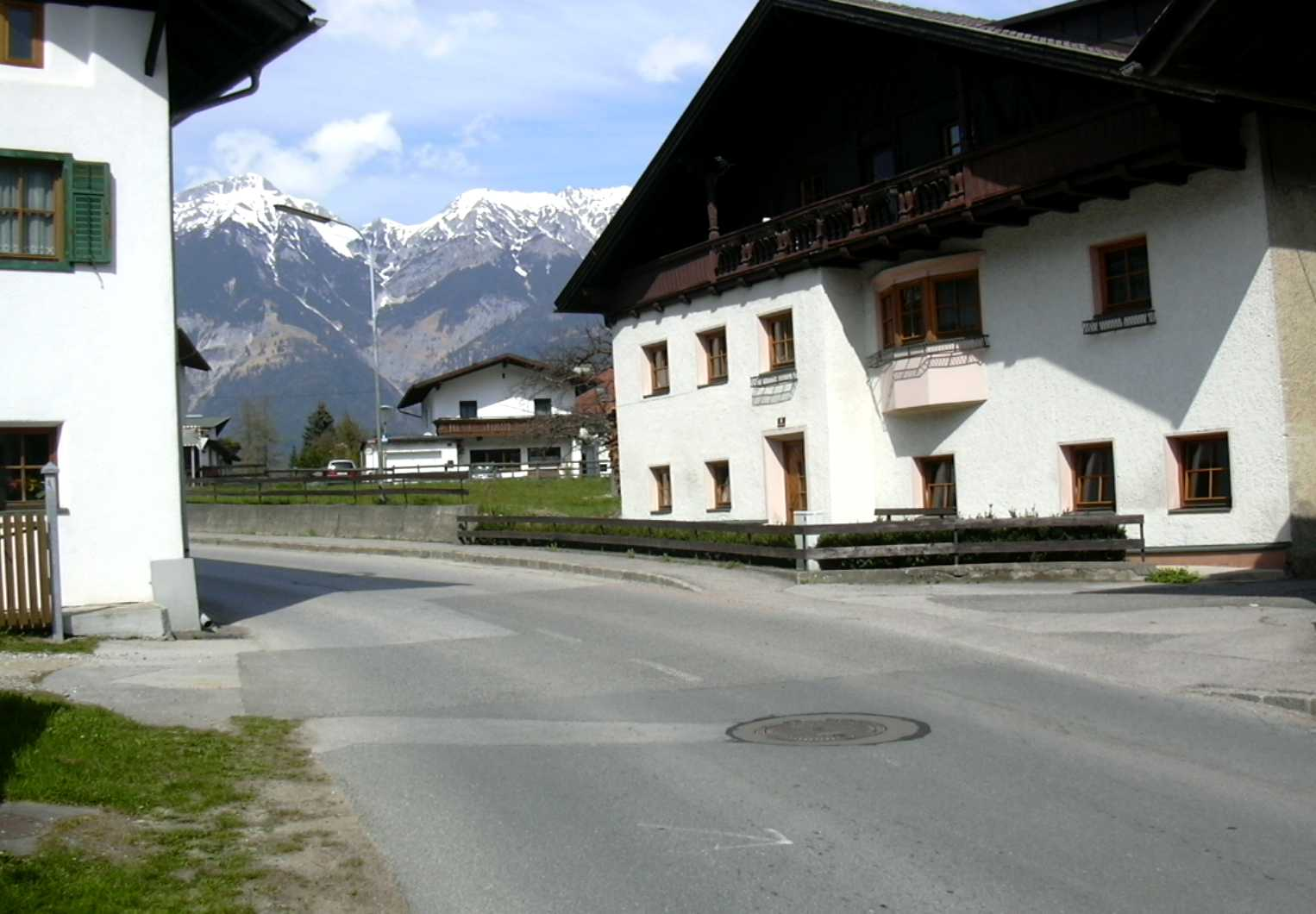 Ampass, Austria